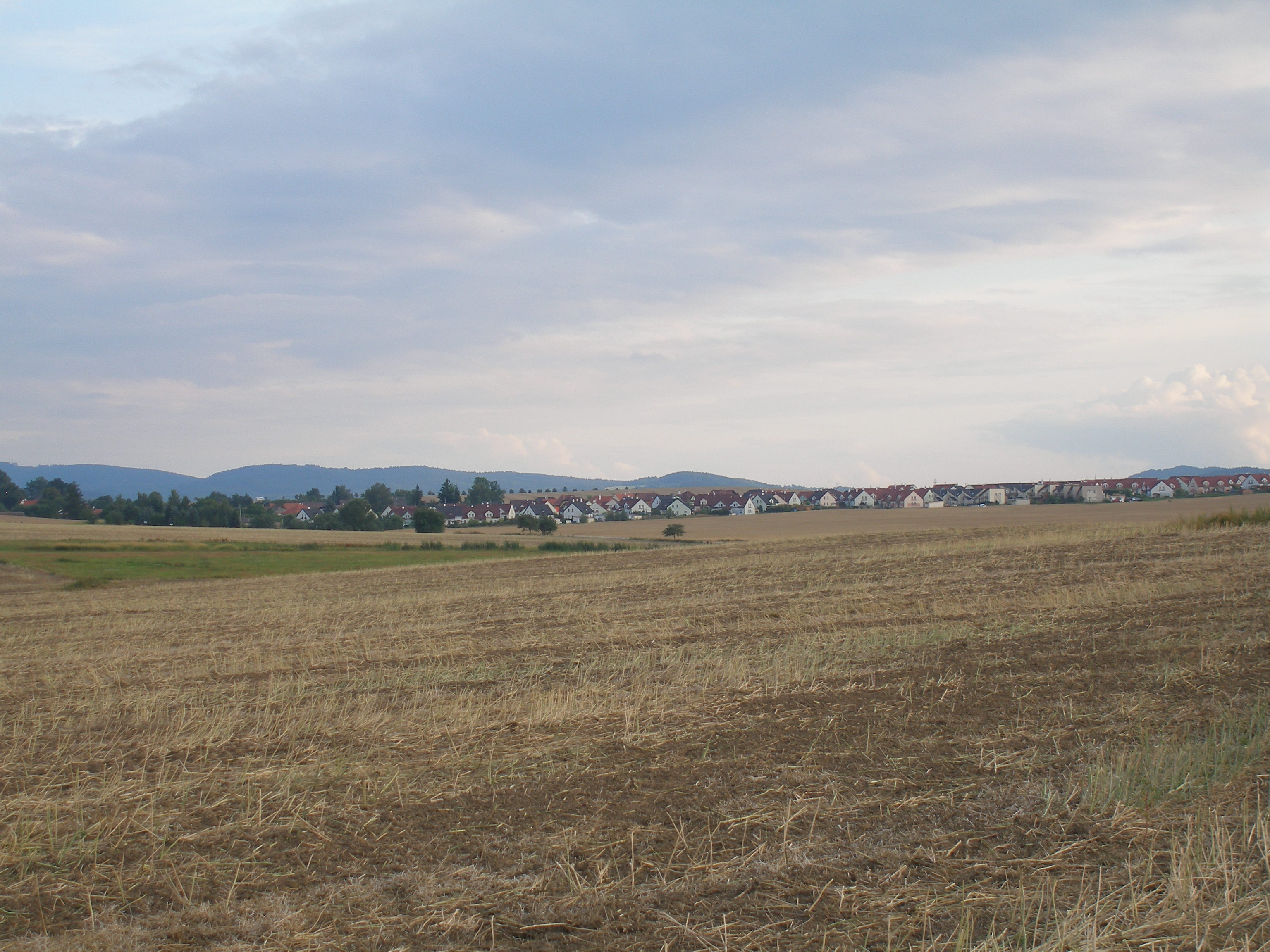 Dolní Třebonín - the general view from the north